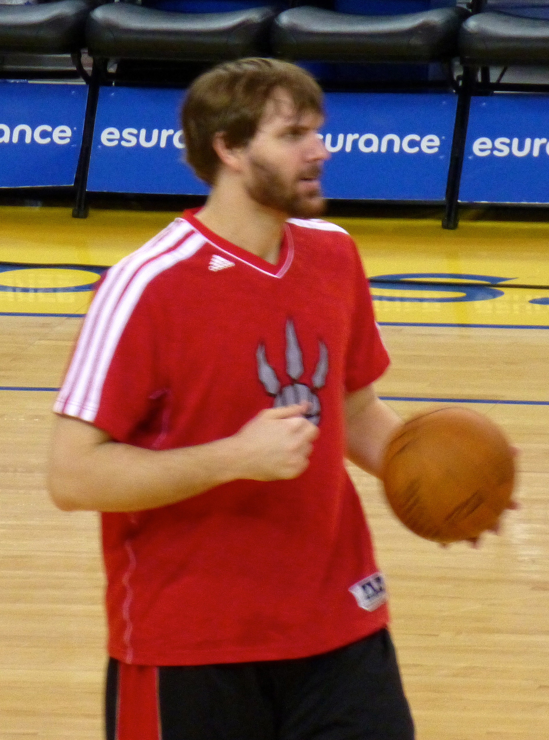 Aaron Gray, Toronto Raptors at Golden State Warriors March 4, 2013